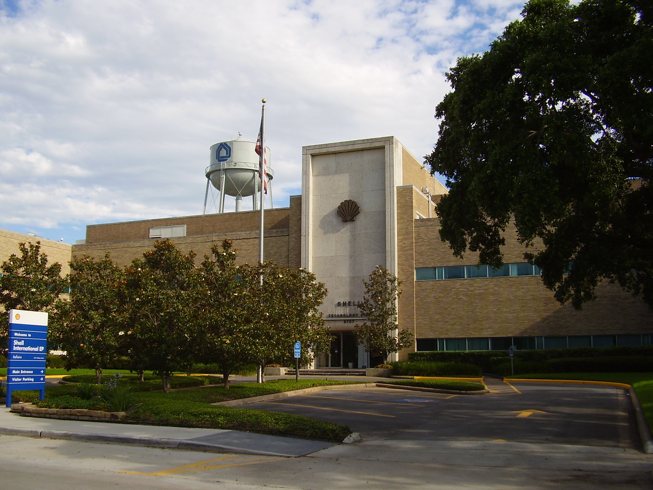 Royal Dutch Shell Bellaire Technology Center